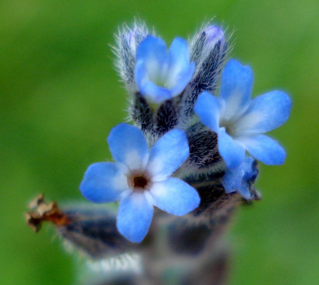 Myosotis stricta (Unterfranken, Germany)